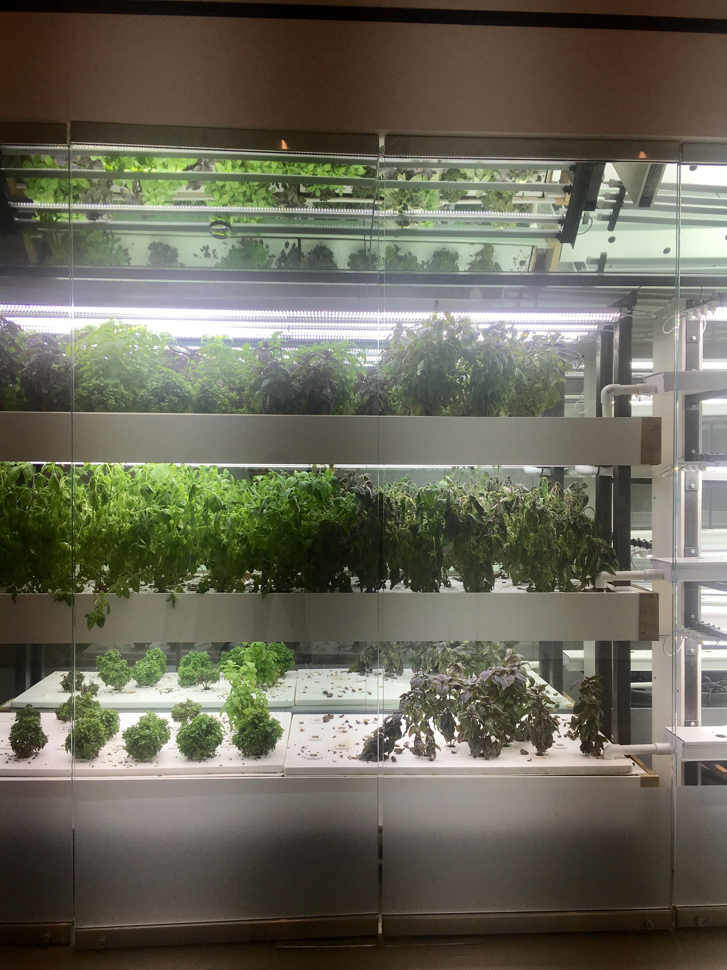 Site: Project Farmhouse